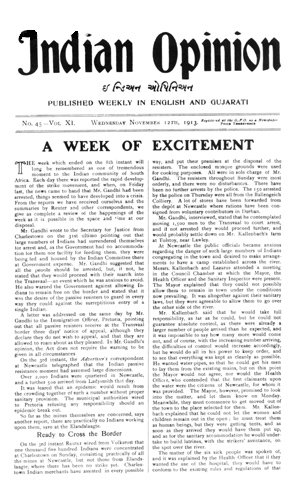 Indian Opinion, newspaper published by Gandhi in South-Africa, 1913.